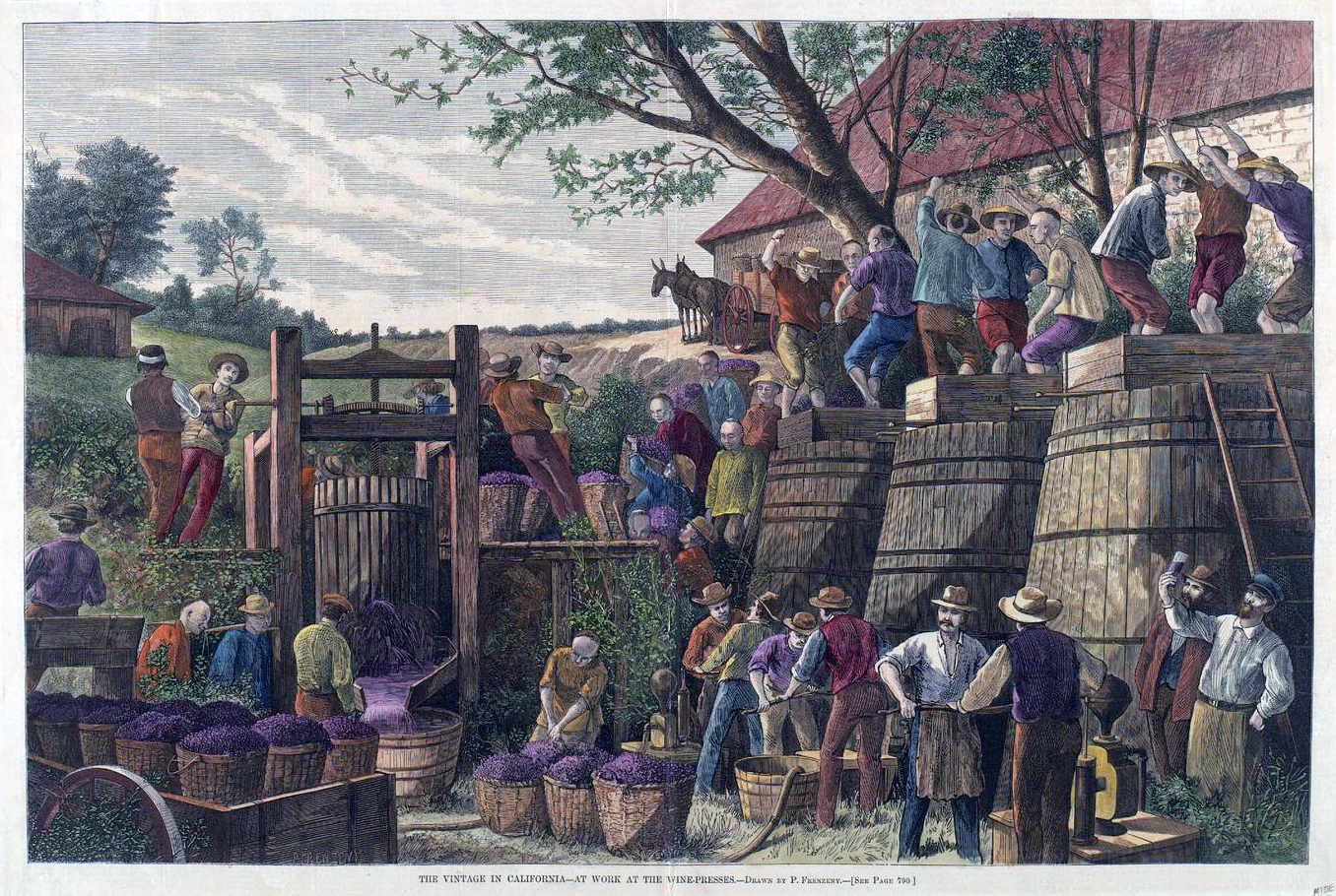 Paul Frenzeny (1840–1902): The vintage in California – at work at the wine-presses (engraving, late 1800's). Workers, many of the Chinese, crush grapes with their feet and work wine presses at a California winery.